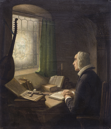 H.A. Brorson